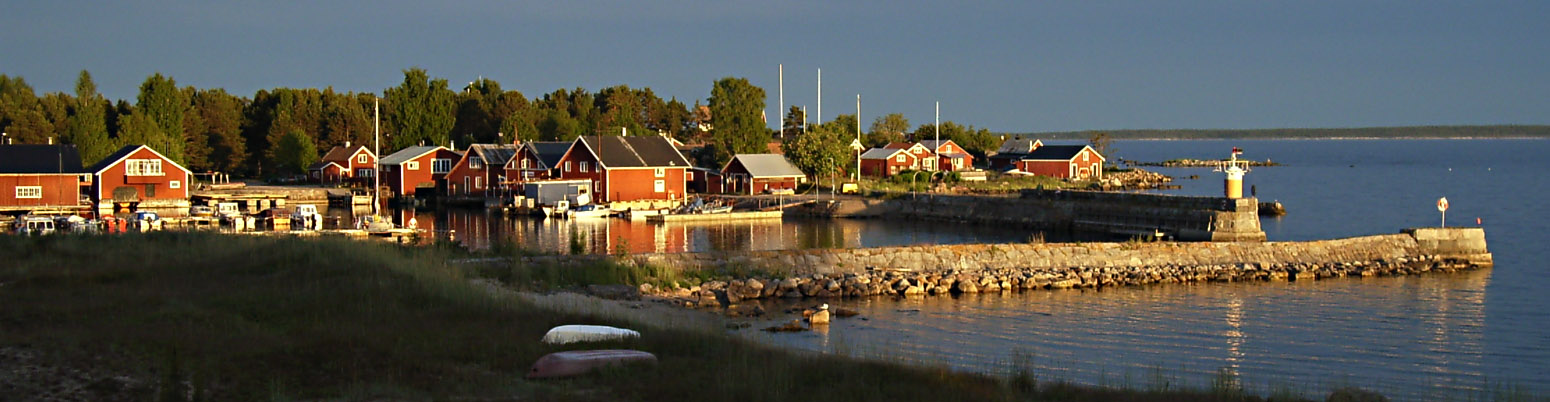 Hölick harbour, Hälsingland, Sweden, evening in summer of 2006.